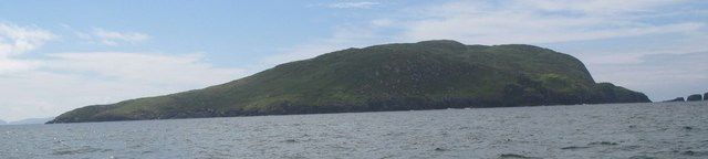 Scariff Island off Derrynane Taken from a yacht tracking 1nm across the north side of the island